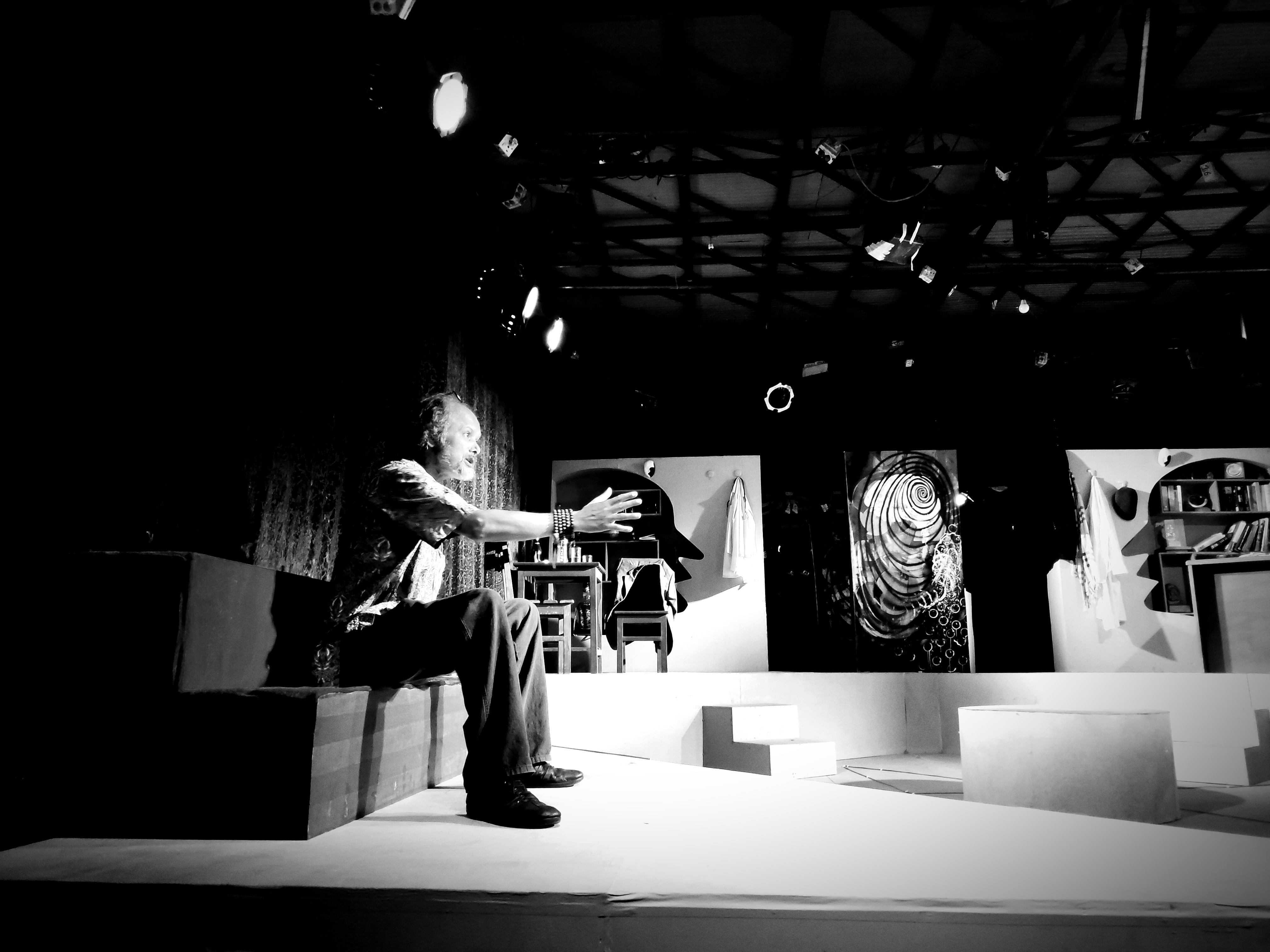 Sunil Pokharel on stage for Mimansa drama.